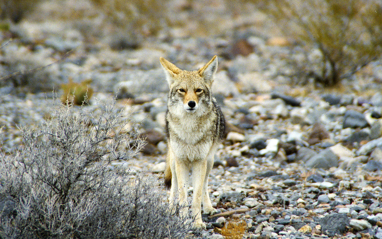 Coyote (Canis latrans) in Death Valley, California, USA